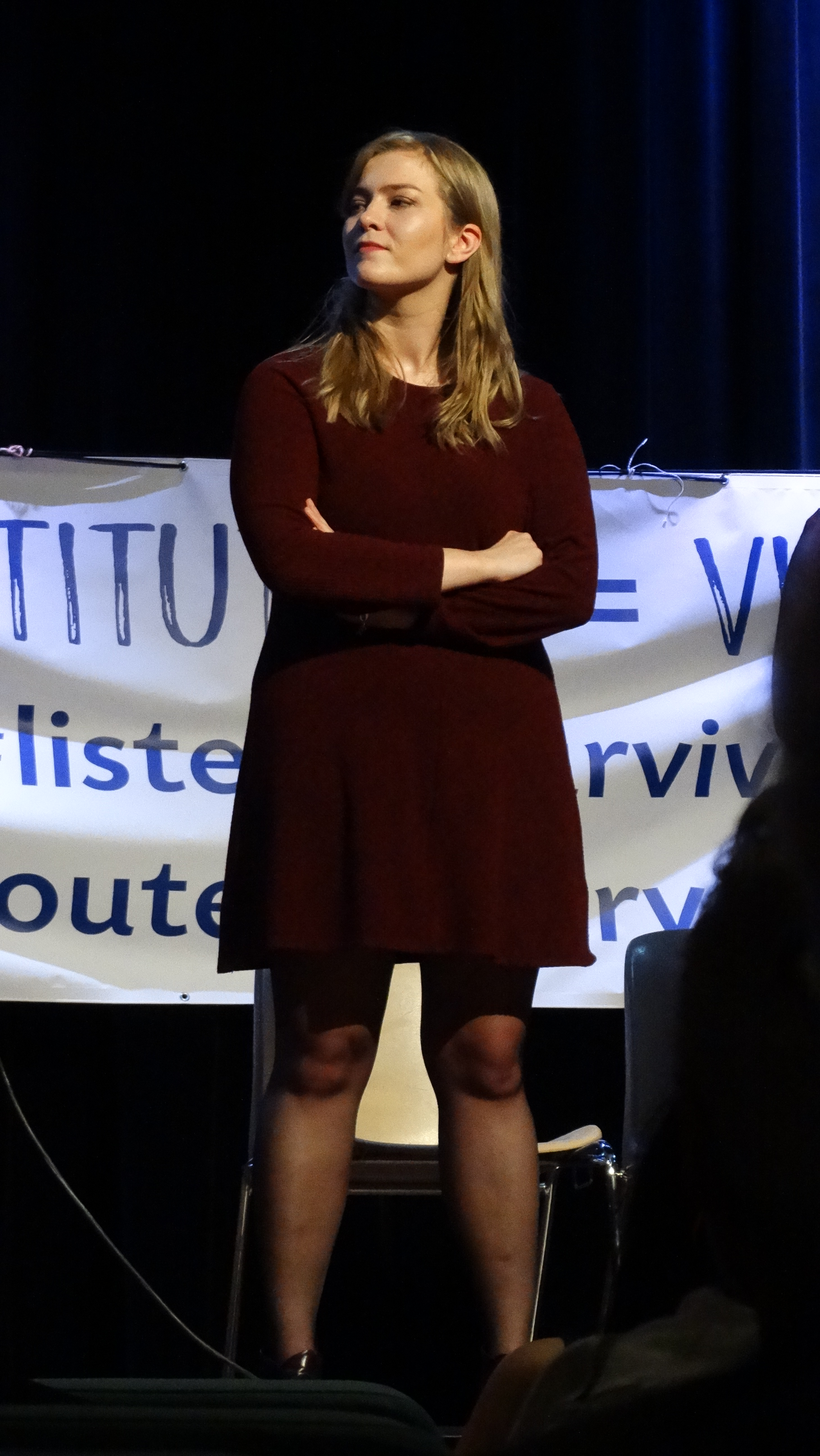 Raphaëlle Rémy-Leleu, spokesperson for the French feminist organization Osez le féminisme !, at the international event "#MeToo & Prostitution: Survivors Break the Silence!" held on Novembre 23rd 2018 in the 2nd arrondissement of Paris.